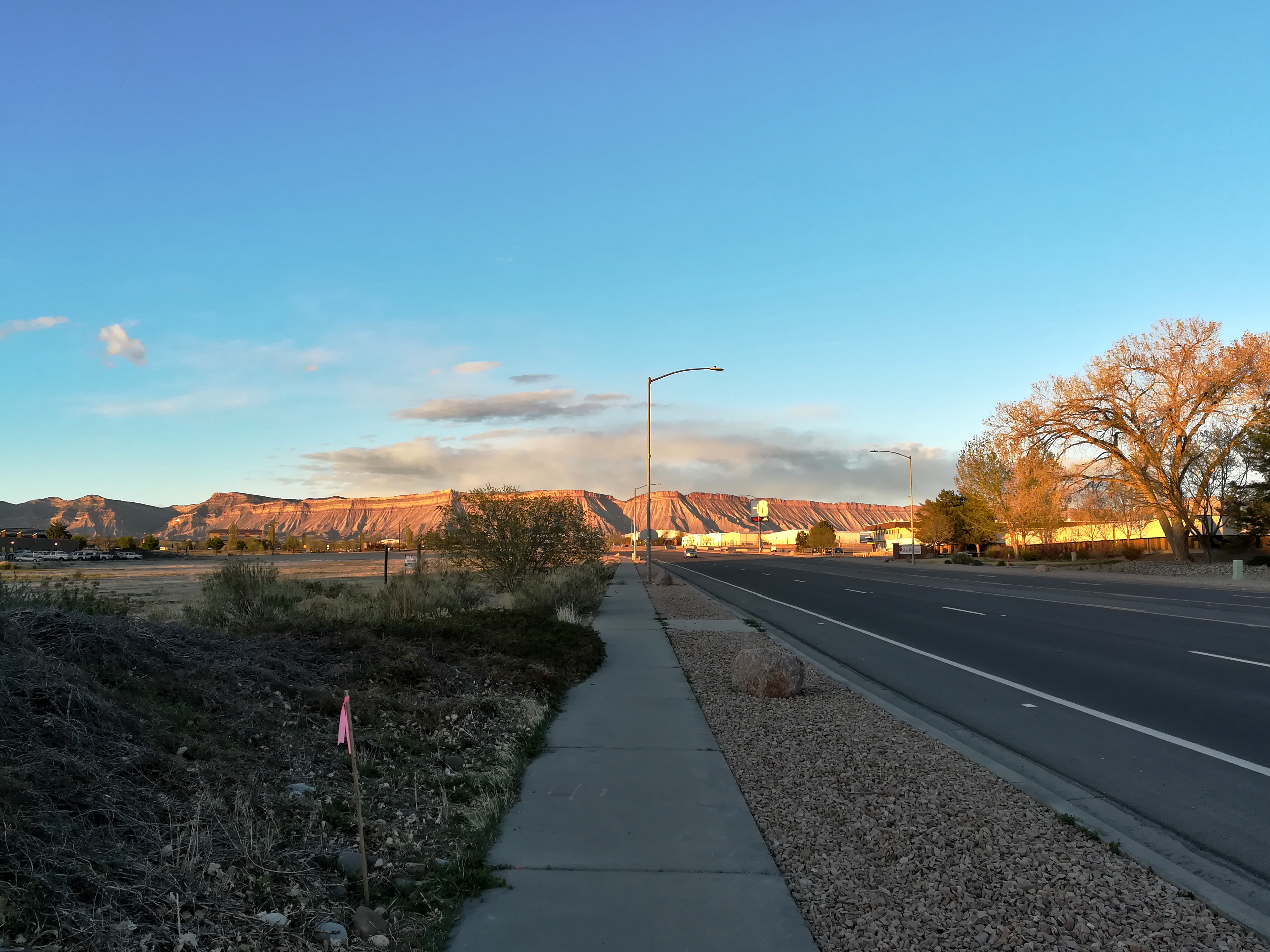 Grand Junction